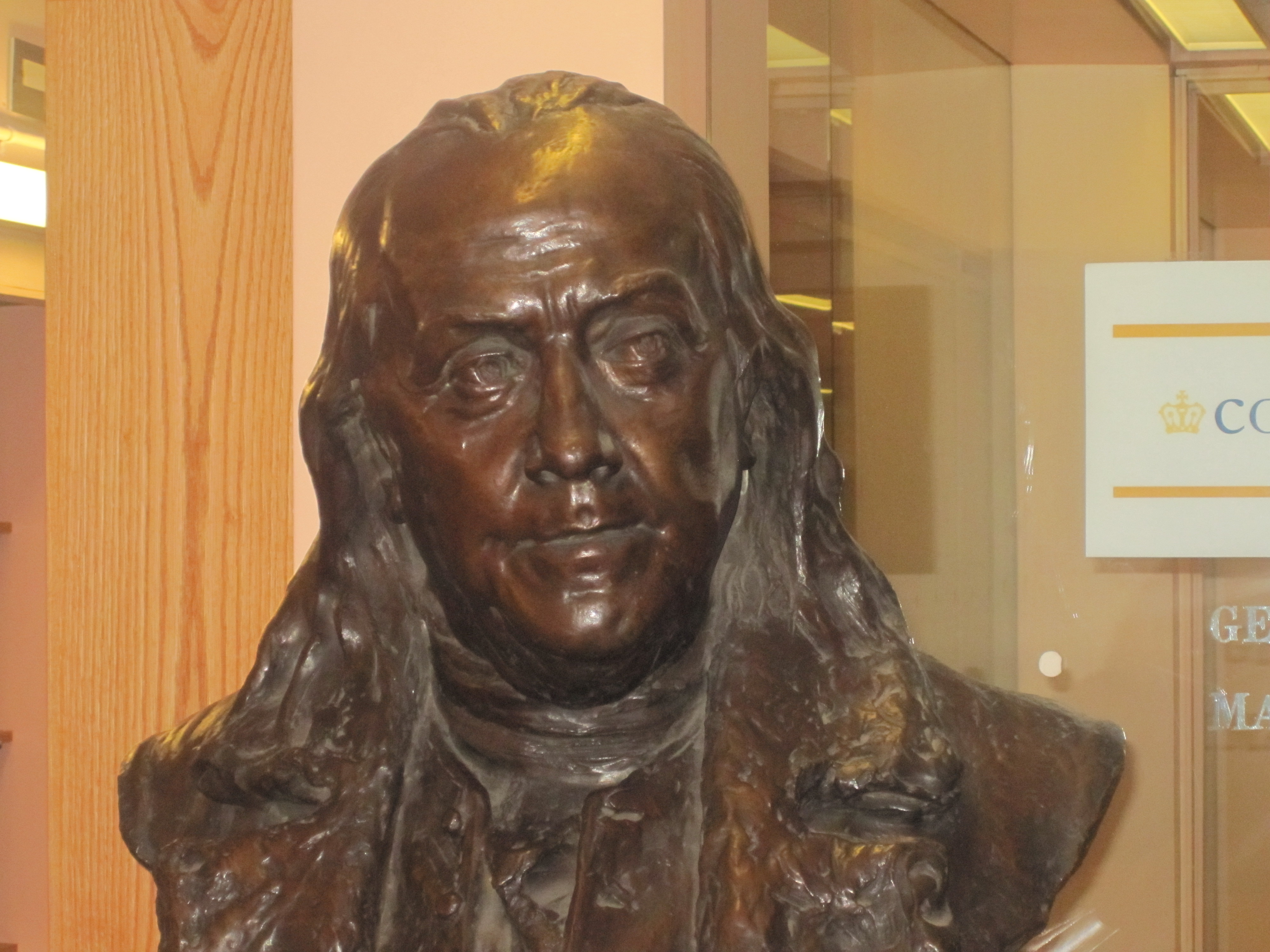 FRanklin bust at Archives Department of Columbia University, NYC